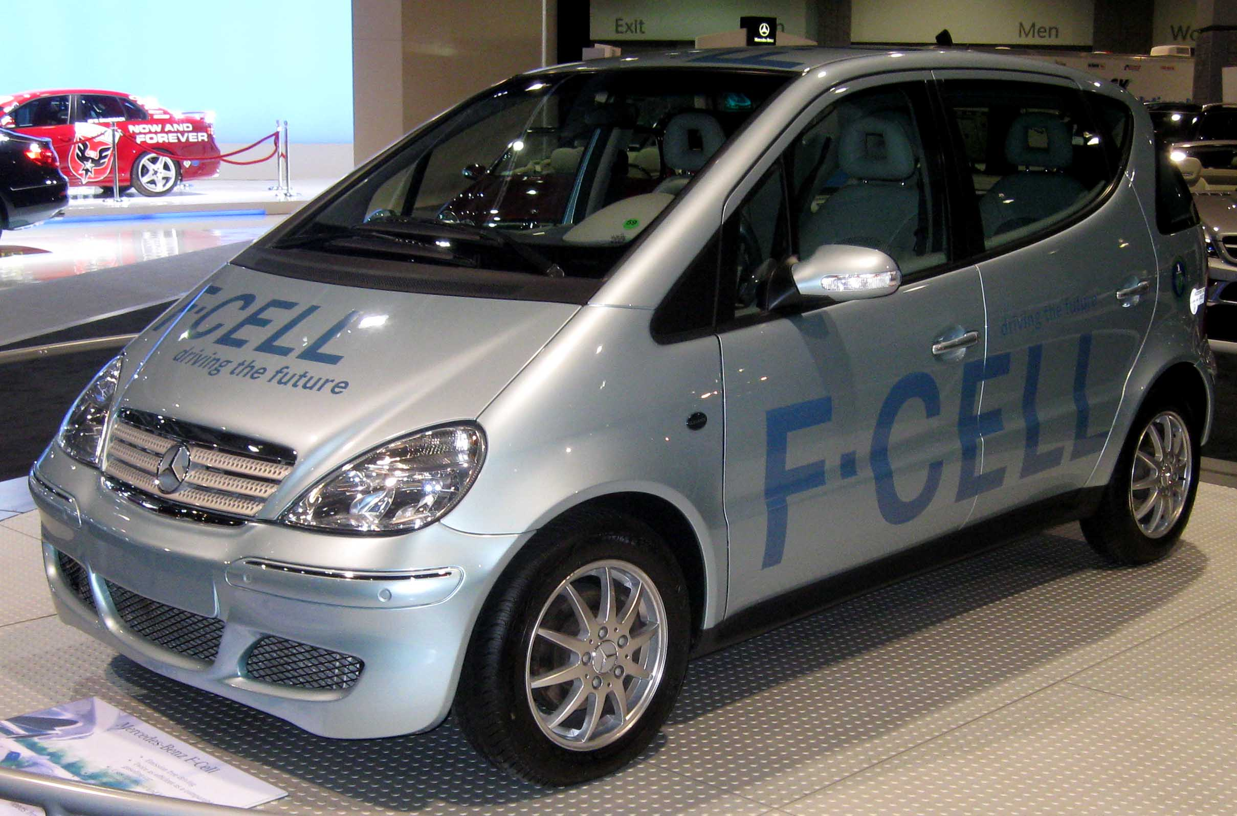 Mercedes-Benz A-Class F-Cell photographed at the 2009 Washington DC Auto Show.